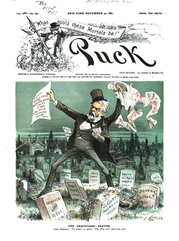 Cover of Puck magazine , from 1887, depicting Rep. John Sherman waving a 'bloody shirt'